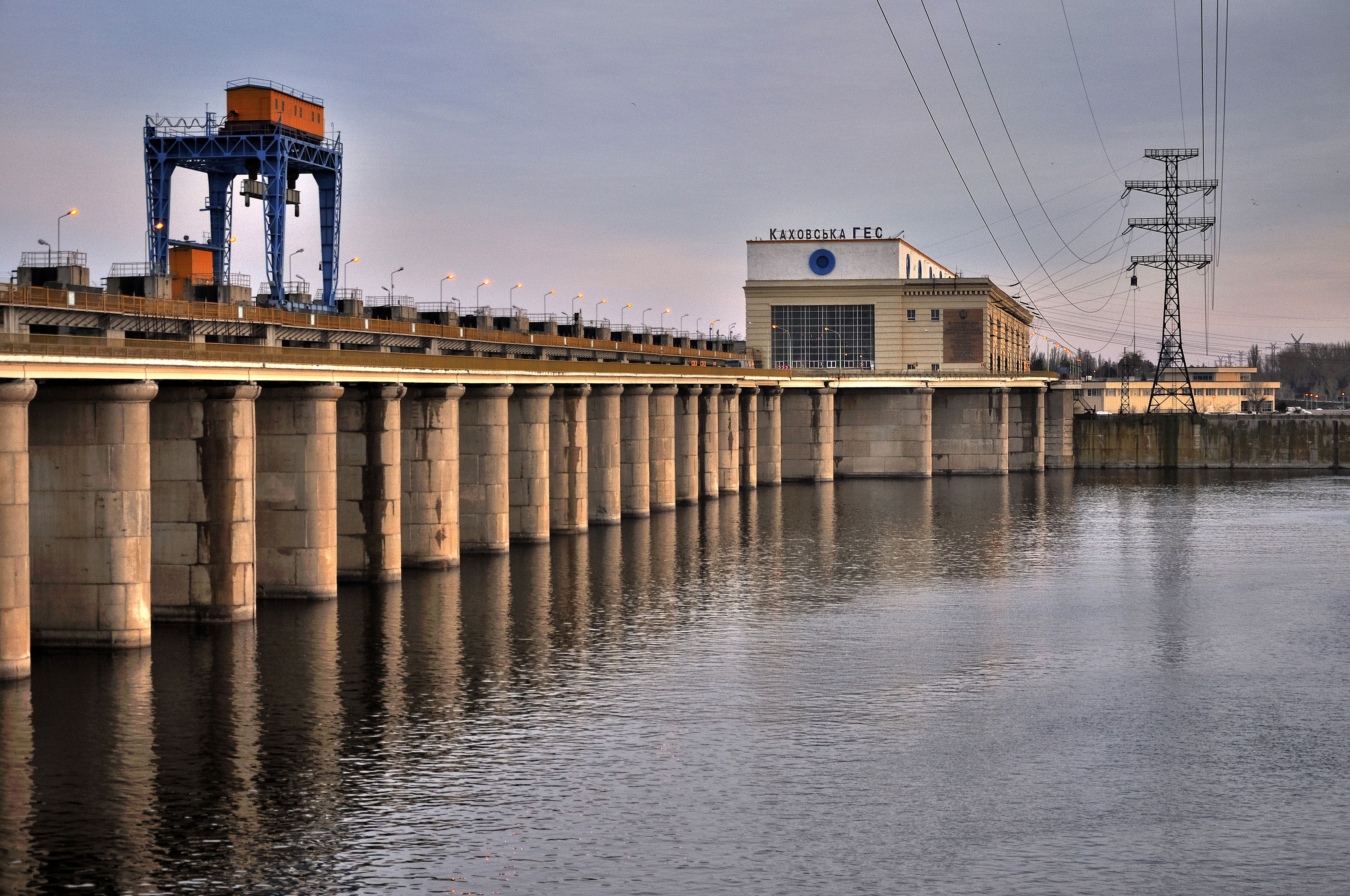 Kakhovka Dam and Kakhovska Hydroelectric Power Plant